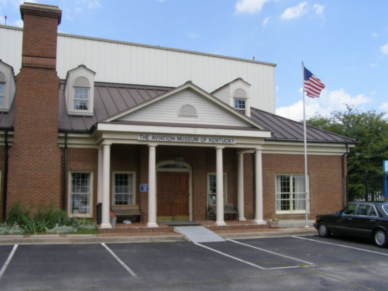 Aviation Museum of Kentucky, Lexington